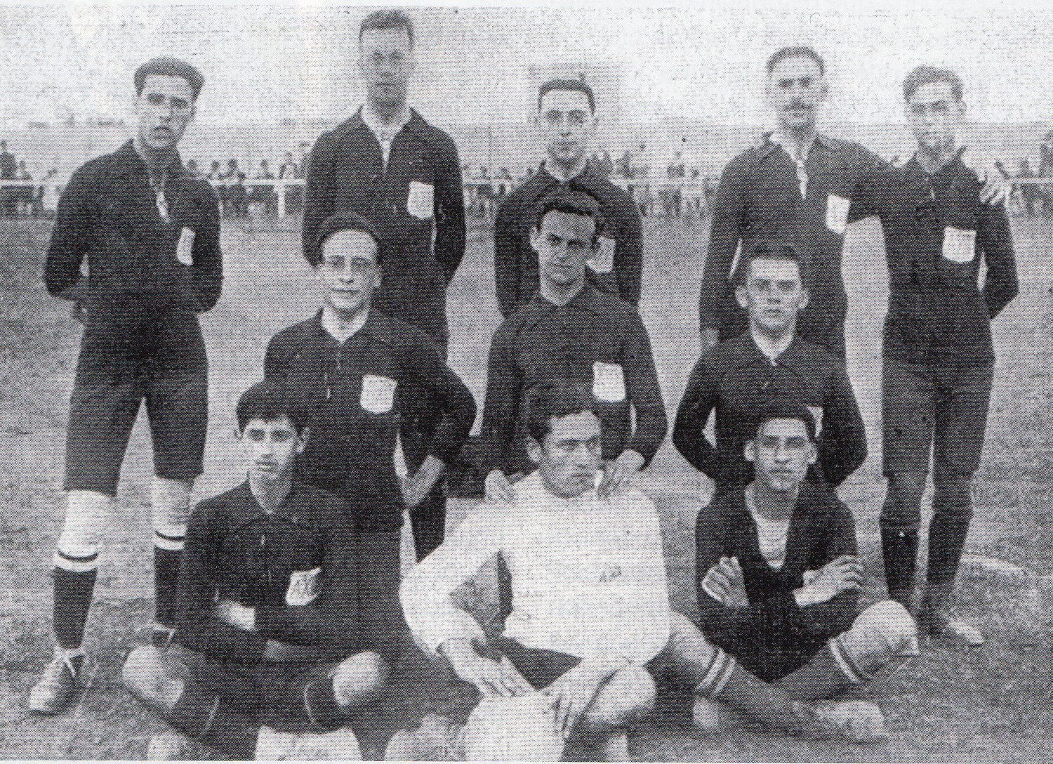 RCD Mallorca first match in 1916. Played against FC Barcelona. Balear team lost 0-8